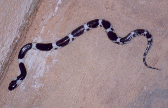 Lycodon aulicus, Wolf snake from Gadchiroli snake is 12 inches long